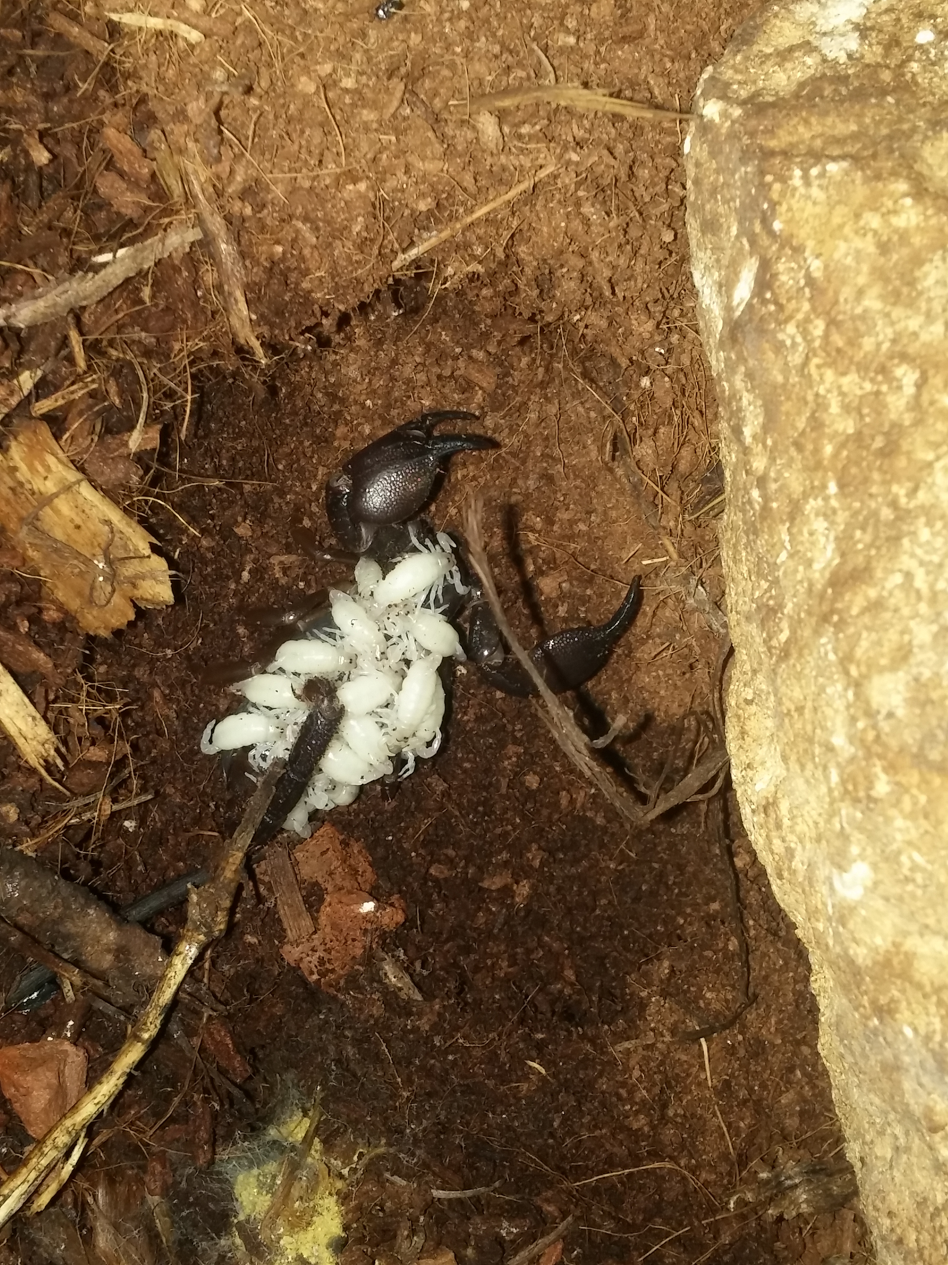 offspring on the back of the mother